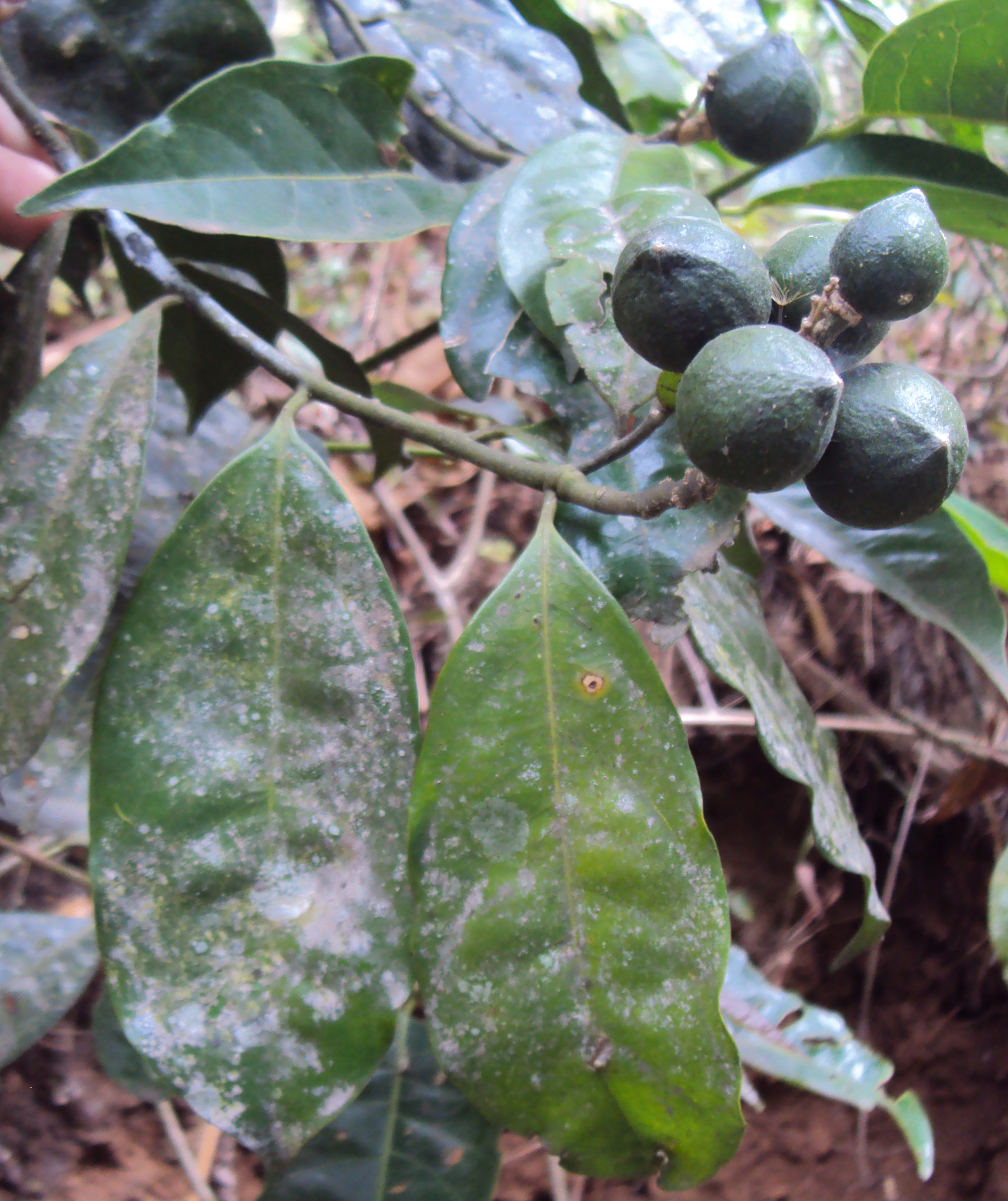 Xanthophyllum arnottianum